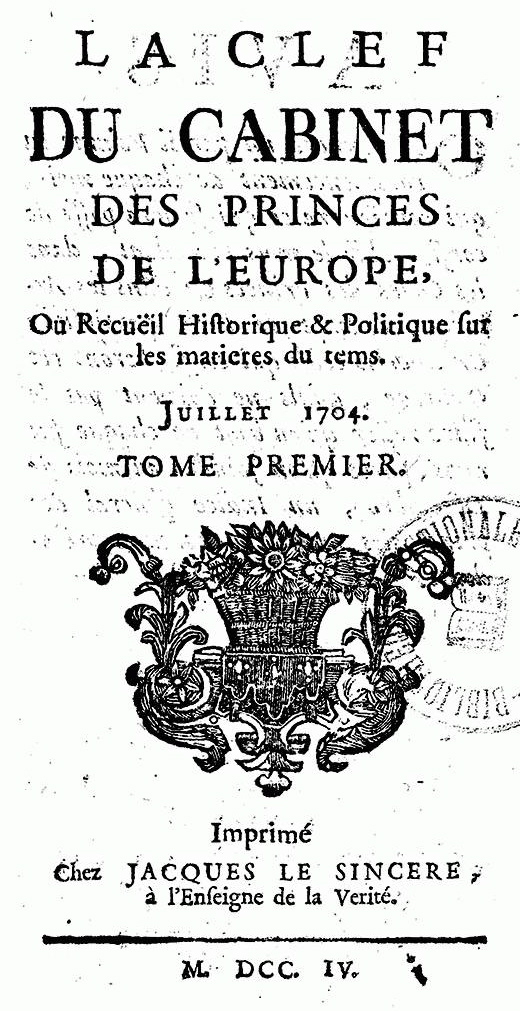 Cover of first edition of La Clef du cabinet des princes de l'Europe, of July 1st, 1704. Editors/printers: Claude Jordan (*~1659-?), André Chevalier (1660-1747). The paper was the first one ever published in the Dutchy of Luxembourg. It was aimed at the French market and published in Luxembourg to avoid censorship in France.